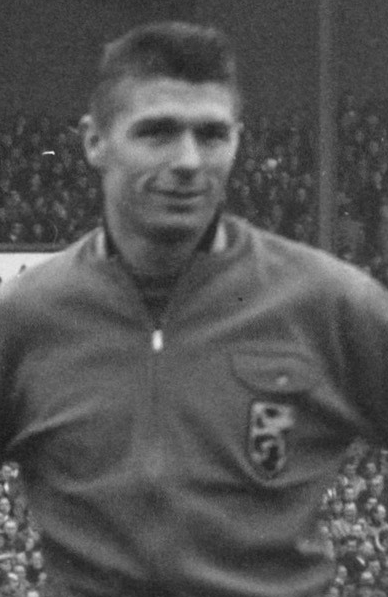 Roland Storme, before the international game Netherlands vs. Belgium, November 12, 1961.